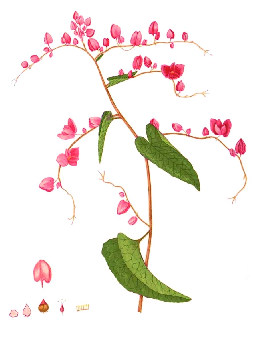 Plate from book of Antigonon leptopus